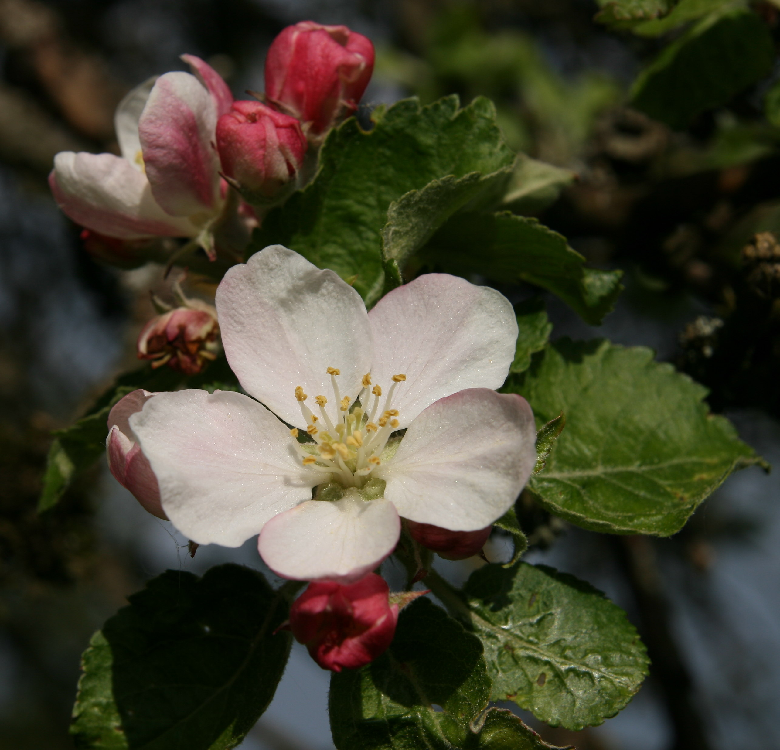 Blossom of the apple variety Graue Französische Renette/ Reinette grise française